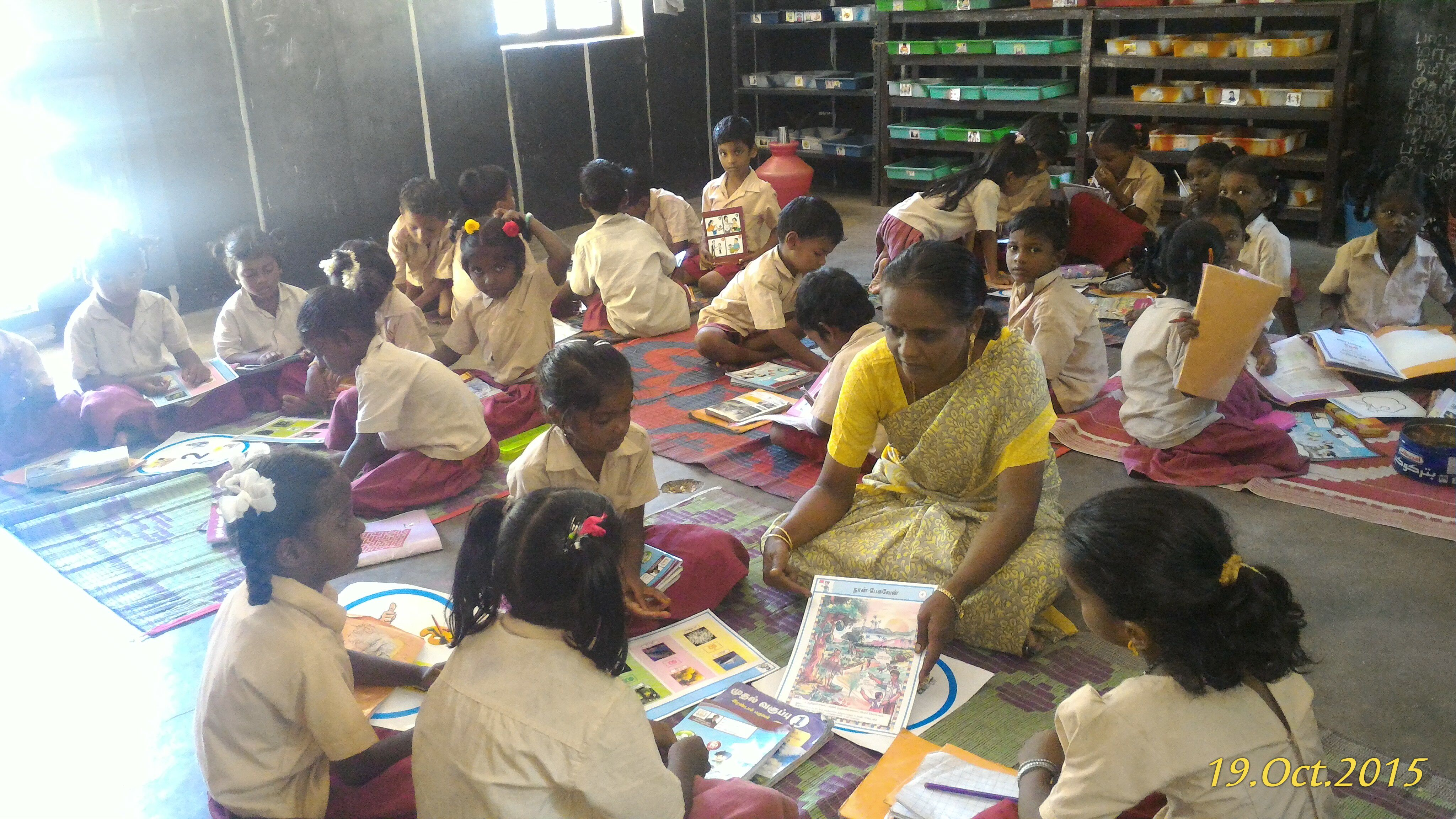 வகுப்பறை சூழல்